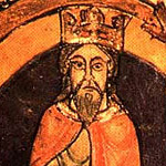 David I of Scotland, detail of an illuminated initial on the Kelso Abbey charter of 1159